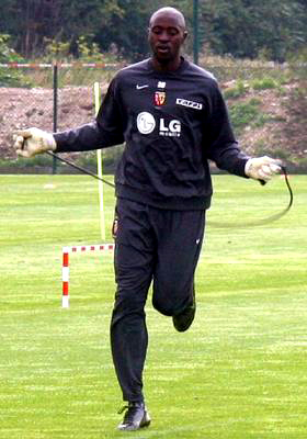 Picture of Charles Itandje